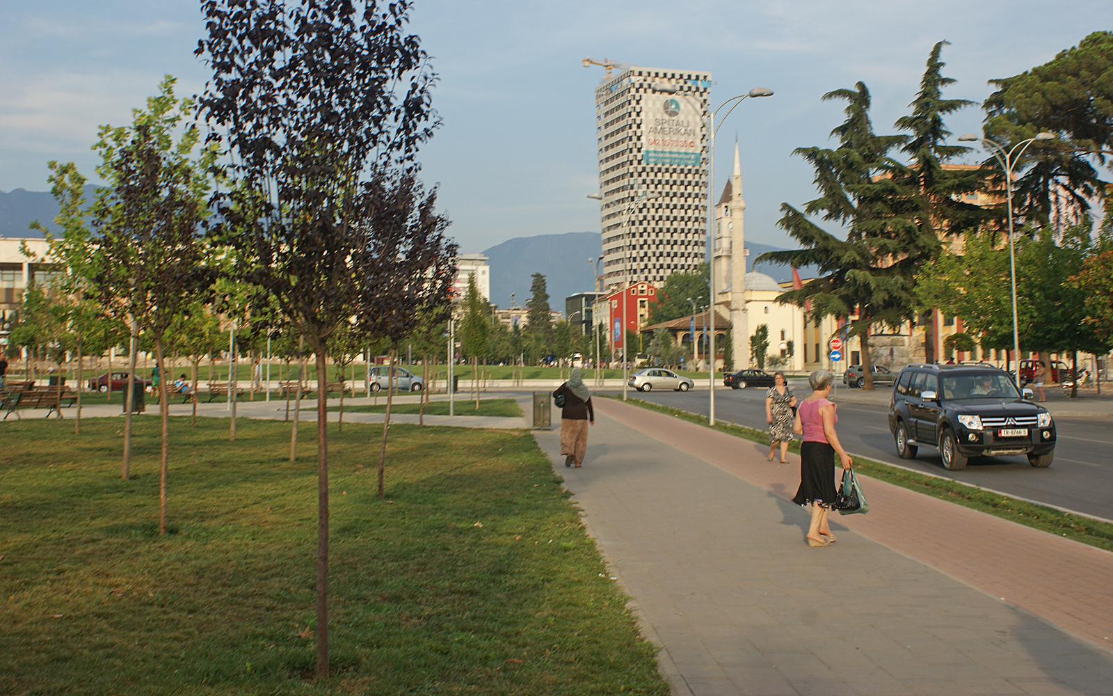 Skanderbeg Square in Tirana, Albania, after 2011 reconstruction.